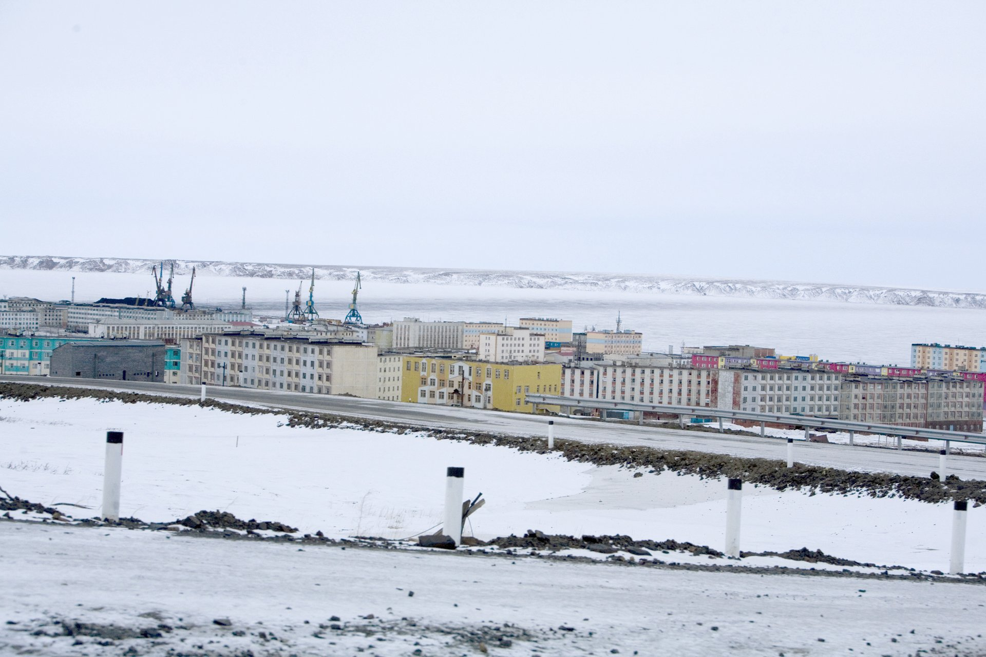 Pevek, Russia. Picture by Brian Tibbets January 2008